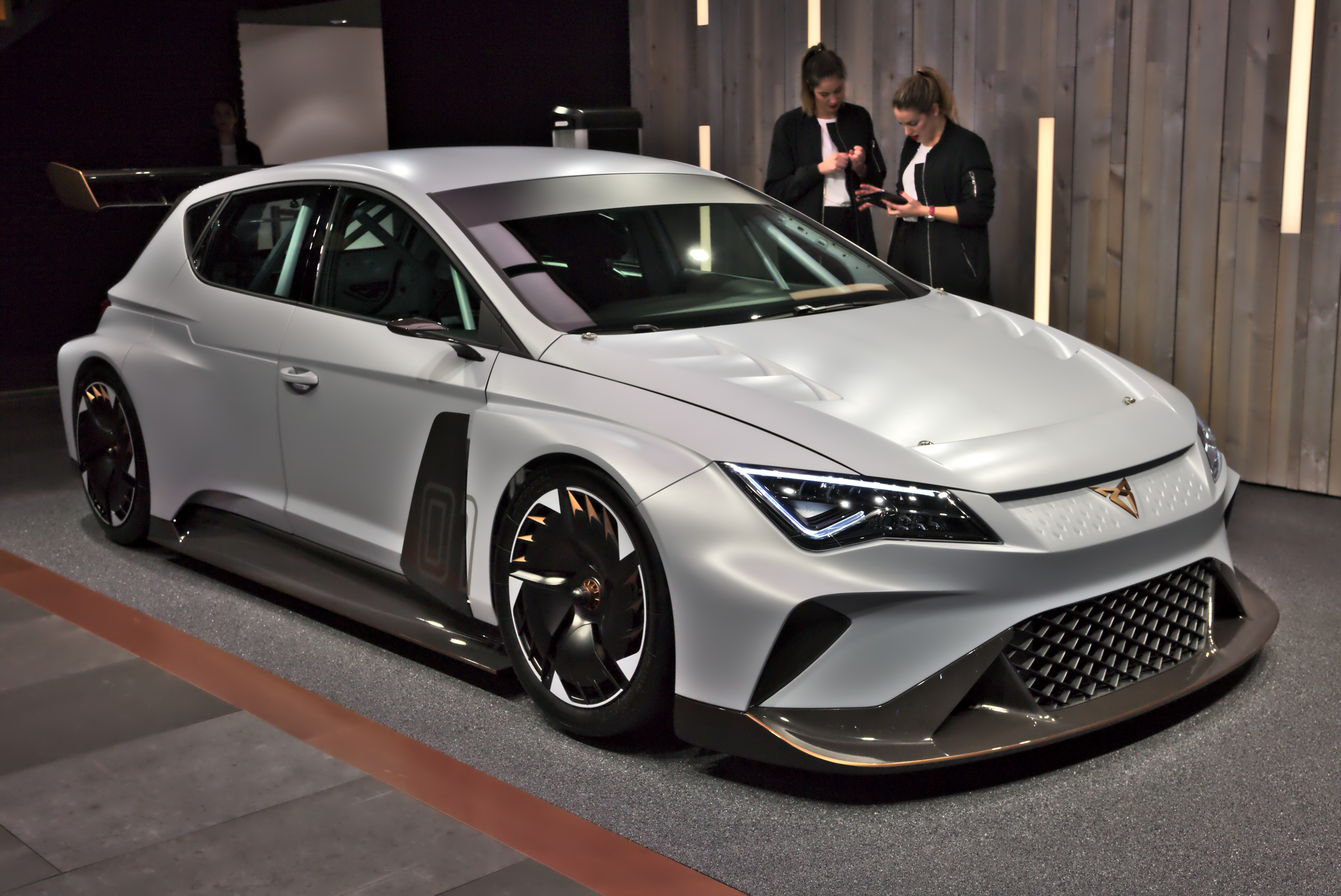 Cupra E-TCR at Geneva Motorshow 2018